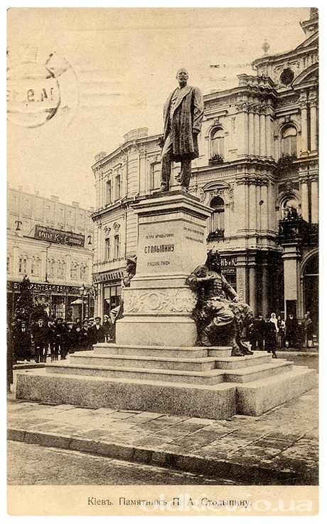 Monument devoted to Pyotr Stolypin in Kiev